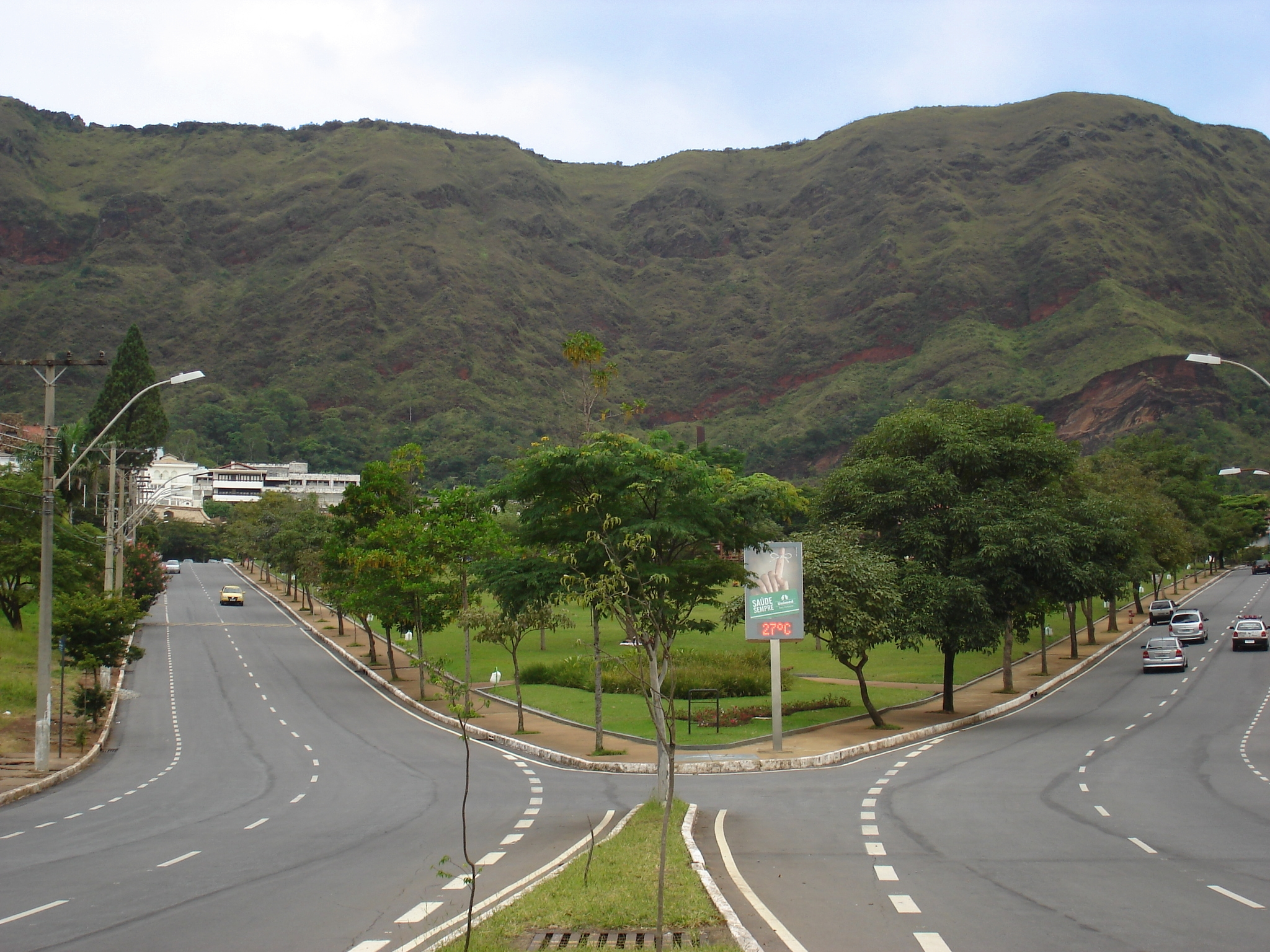 Serra do Curral landscape, viewed at the bottom of Pope's square